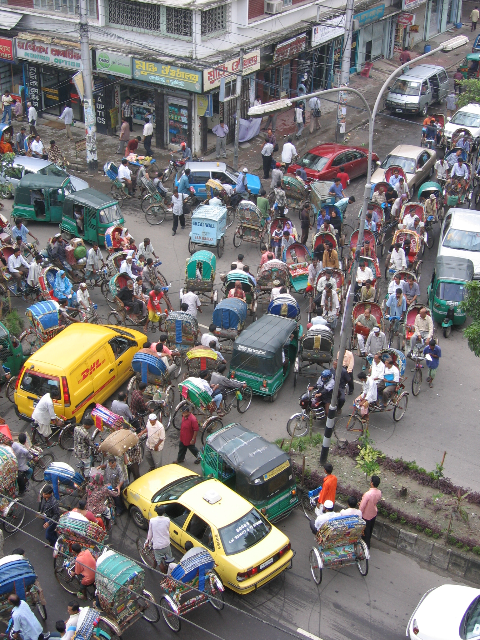 Lines of traffic in Dhaka, consisting of cars, autor- and cyclerickshaws, and pedestrians.